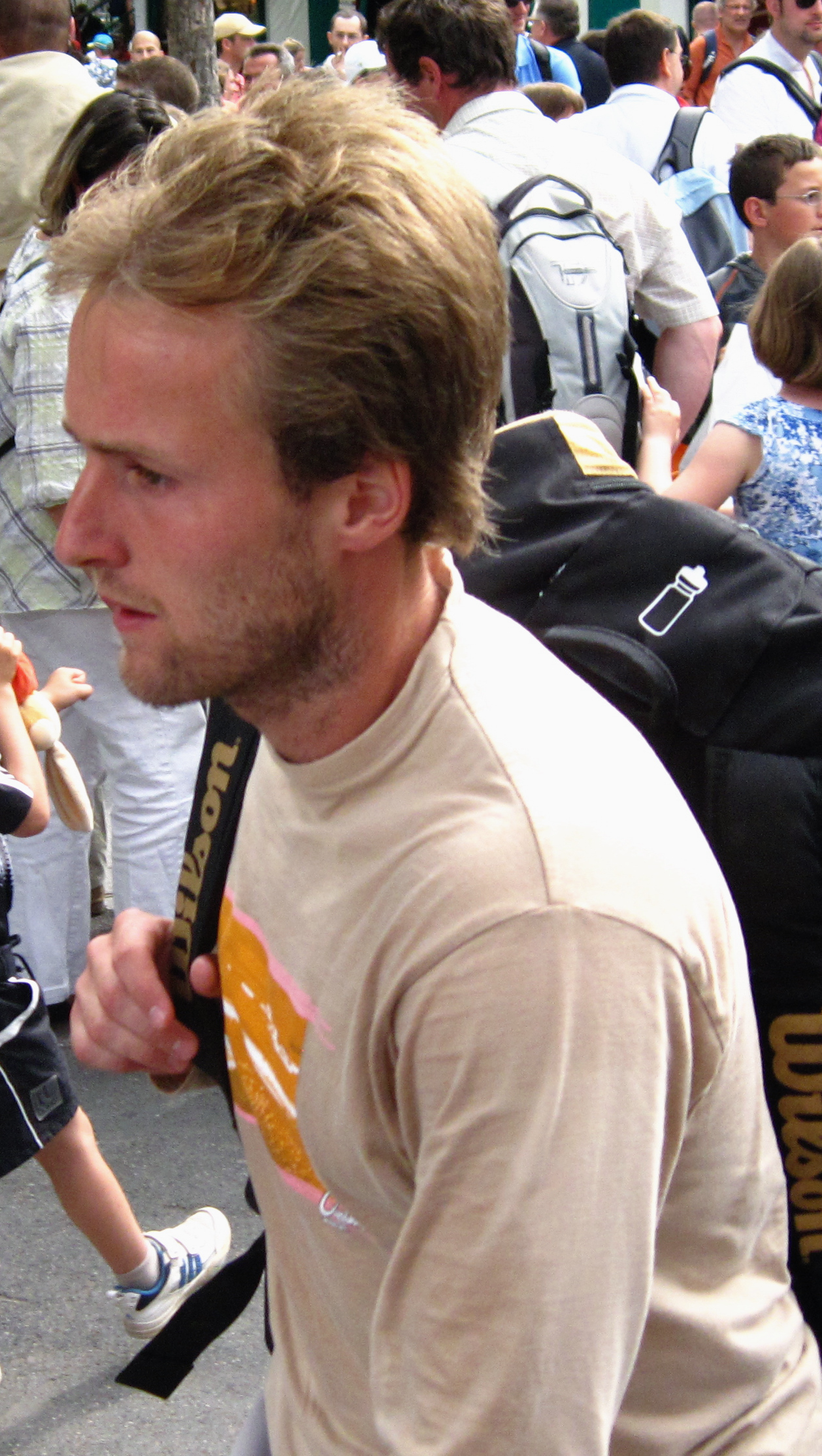 Christophe Rochus at 2009 Roland Garros, Paris, France